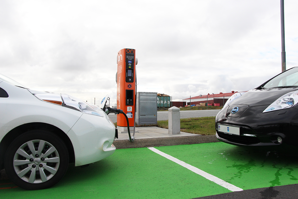 ON Power´s CHAdeMO Fast-Charging Station for electric cars at Selfoss in south Iceland.